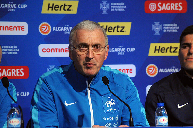 Philippe Bergeroo, 2015 Algarve Cup